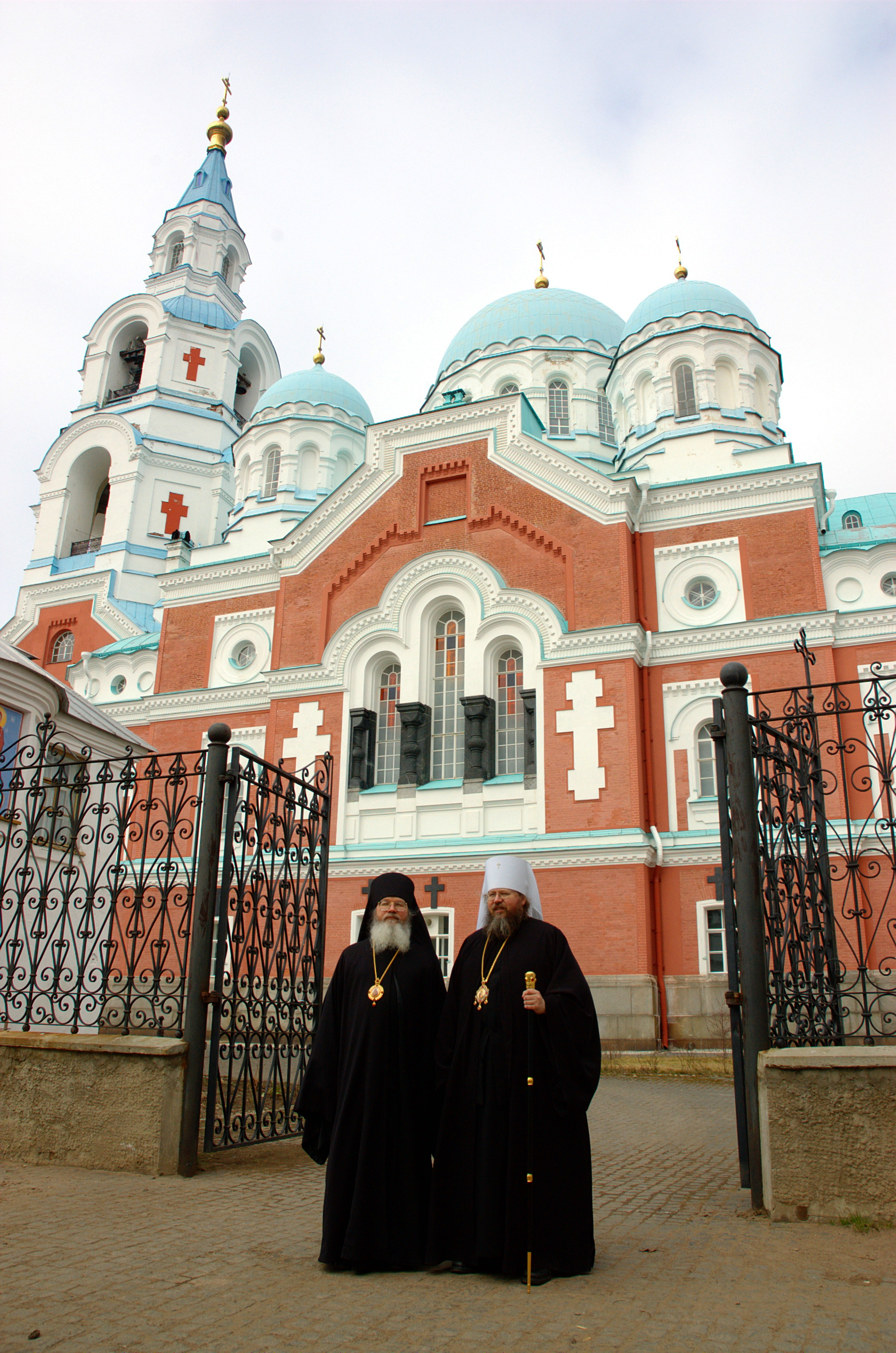 His Eminence, Bishop Pankraty of Troitsa with His Beatitude, Metropolitan Jonah near the Transfiguration cathedral of the Valaam monastery. It was at the Valaam Monastery that Metropolitan Jonah received his monastic formation during the year he spent in Russia after completing theological studies at Saint Vladimir's Seminary in the early 1990's.